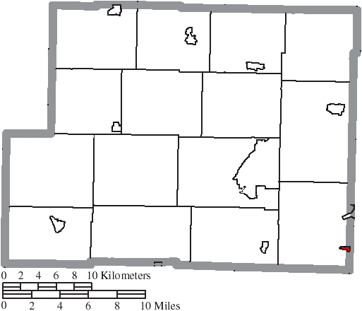 Map of the municipal and township boundaries of Harrison County, Ohio, United States, as of the 2000 census, with the location of the village of Harrisville highlighted. Township borders are shown only in unincorporated areas in order to differentiate incorporated and unincorporated areas more clearly.